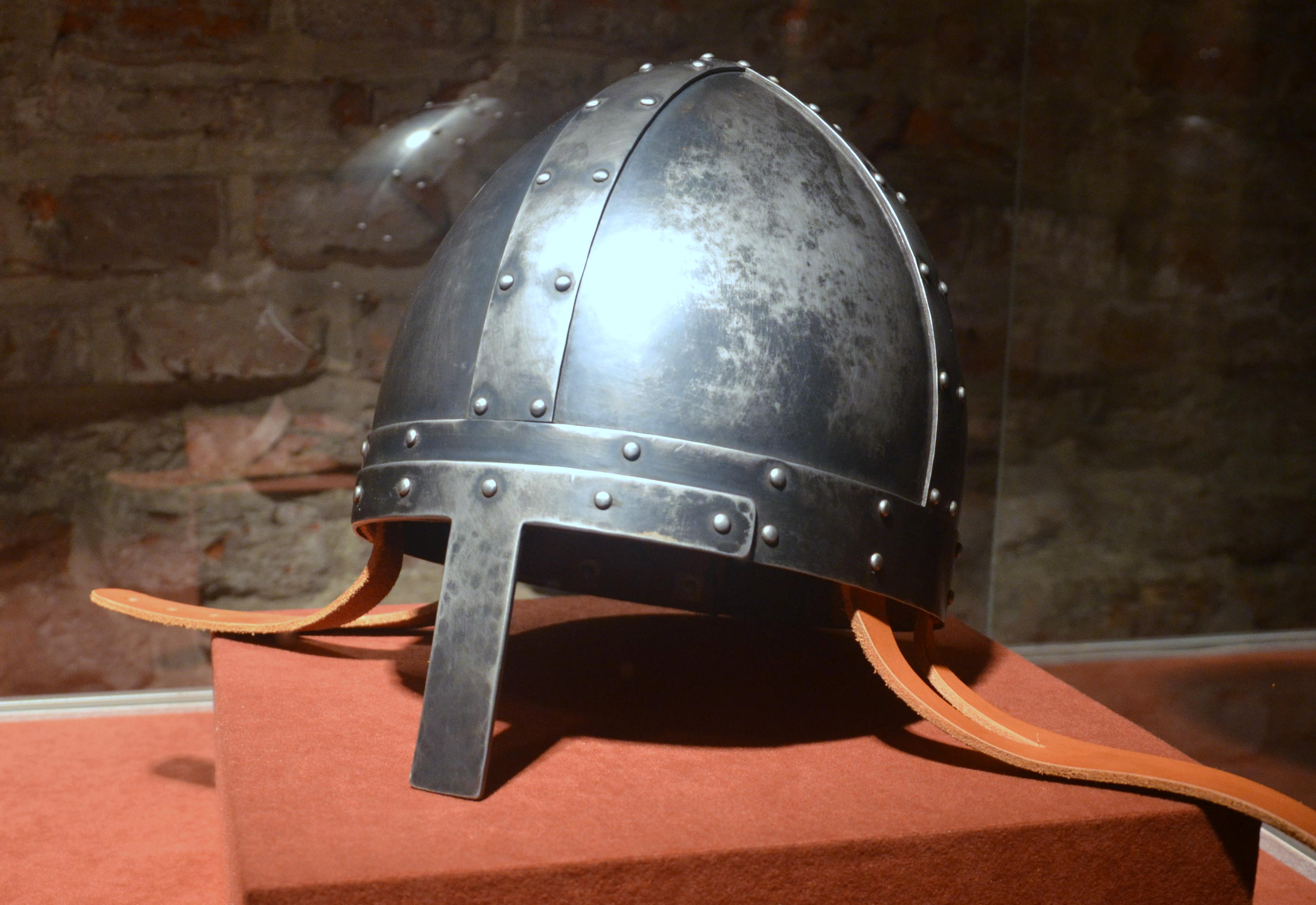 Spangen helmet from 10th 12th c. Norman style. replica